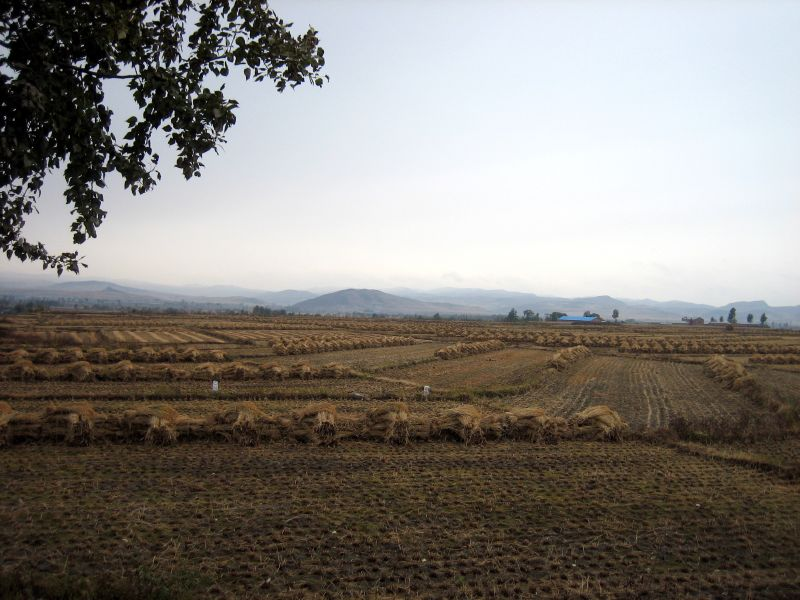 On the road between Yanji and Hunchun in Jilin Province.